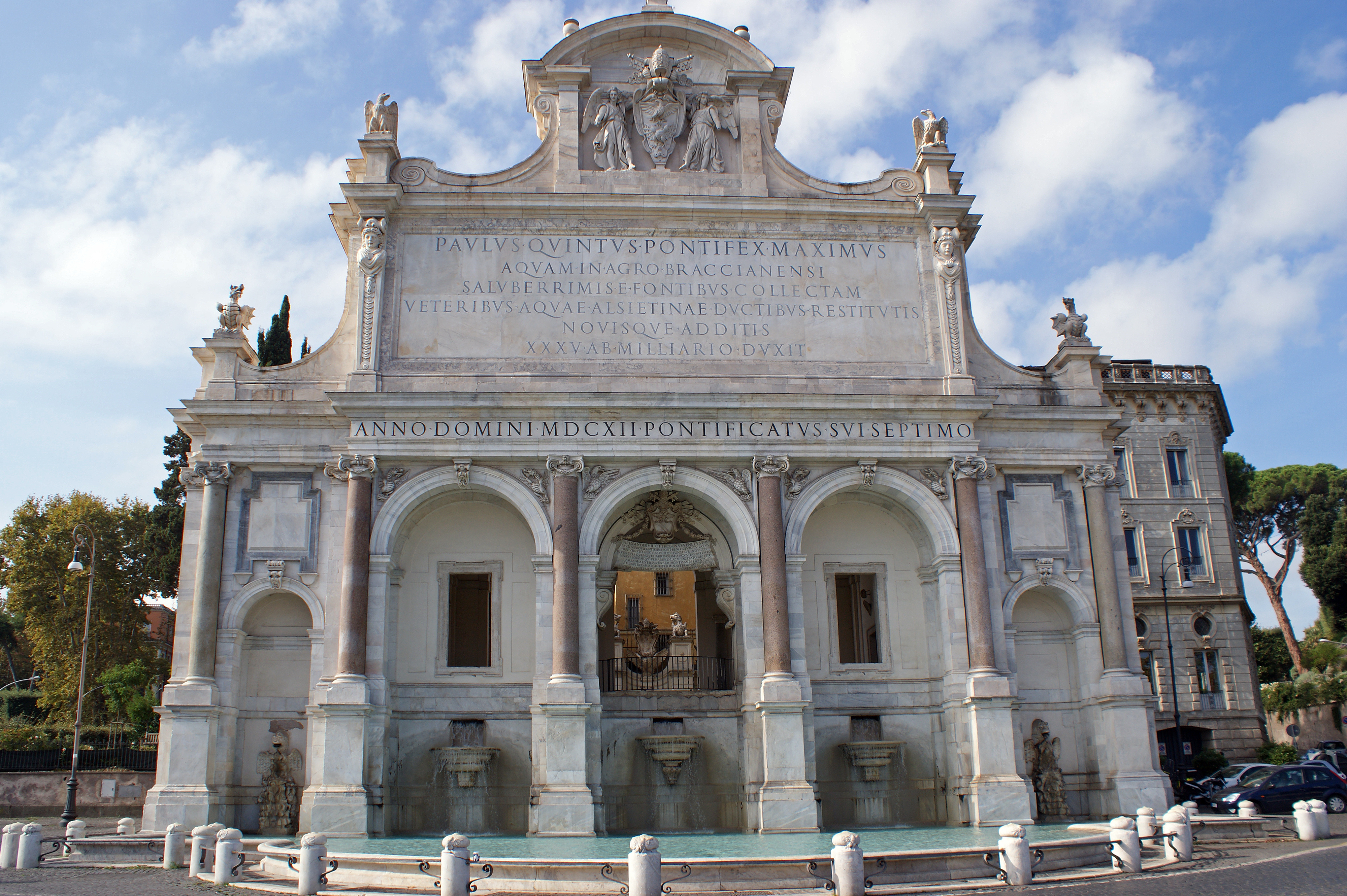 A monumental fountain located on the Janiculum Hill, from 1610-12. In my opinion, one of the most impressing fontains in Rome.